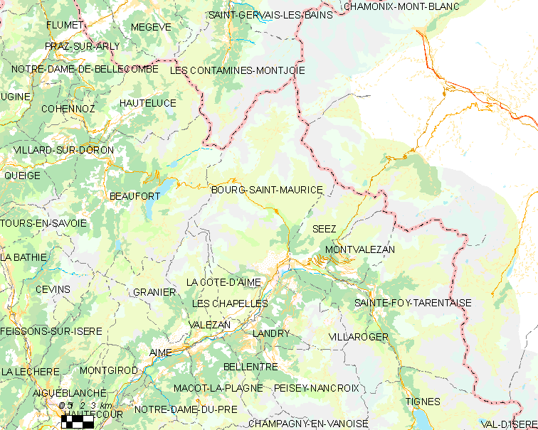 Map of French municipality